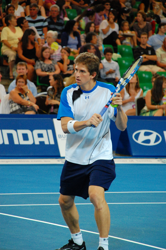 Igor Andreev was hitting a backhand during men singles match against Andy Murray from Great Britain at Hopman Cup XXII in Perth, Western Australia.